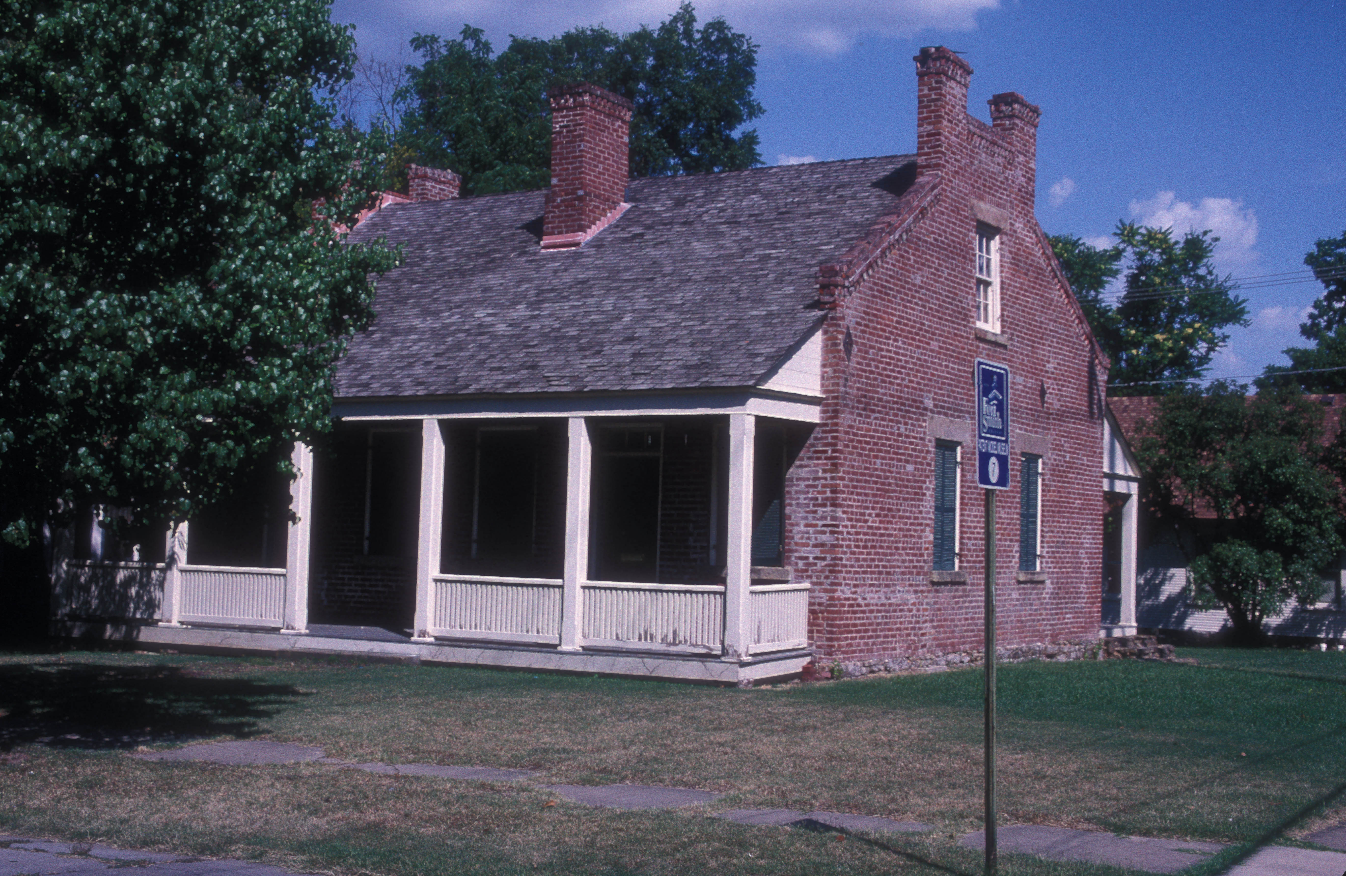 THE OLDEST HOME IN FORT SMITH, THE JOHN ROGERS HOUSE WAS MODELED AFTER THE QUARTERS OF THE MILITARY POST ITSELF. LOCATED IN THE FT. SMITH BELLE GROVE HISTORIC DISTRICT